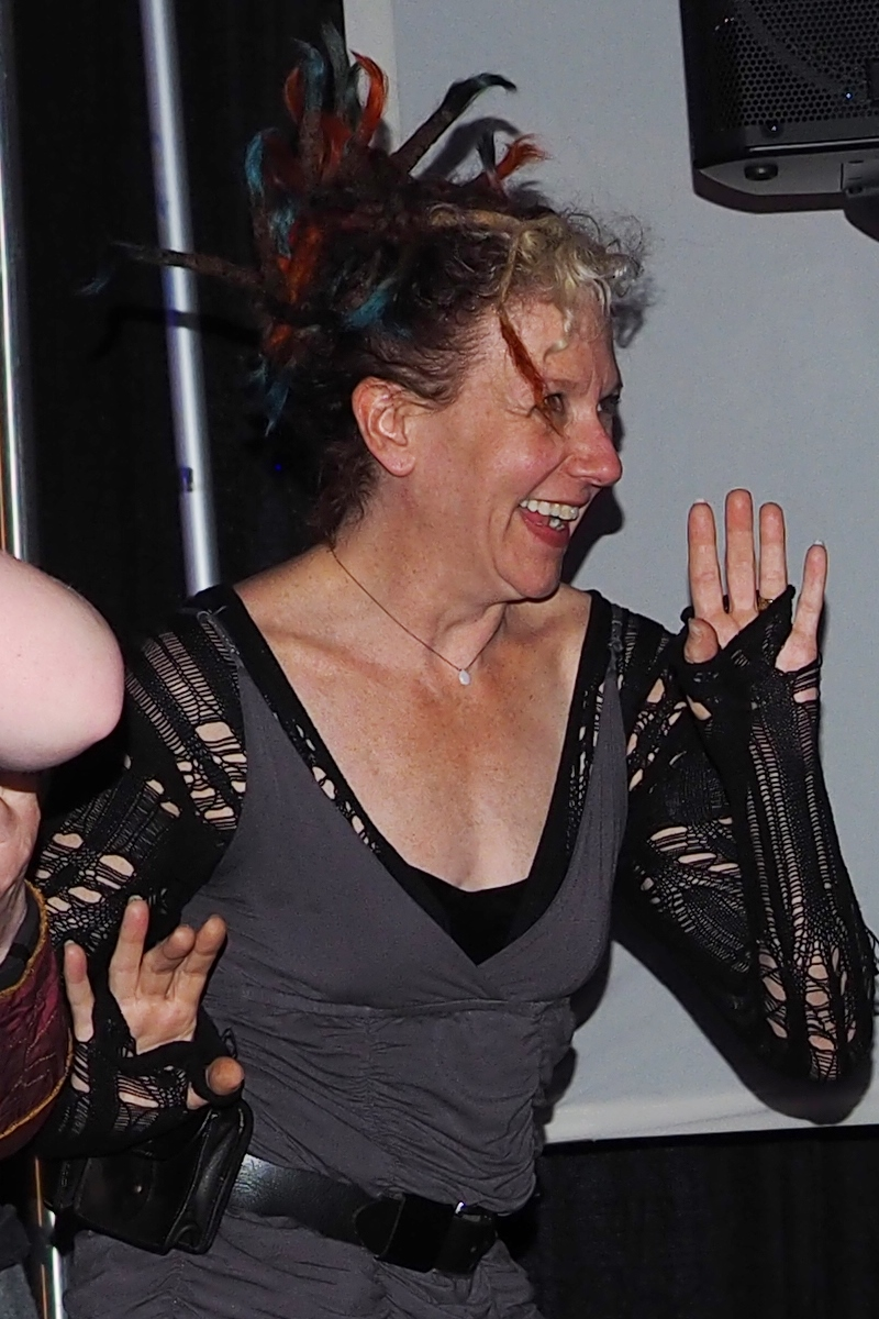 Skyler White dancing at Minicon 50 in Bloomington, Minnesota